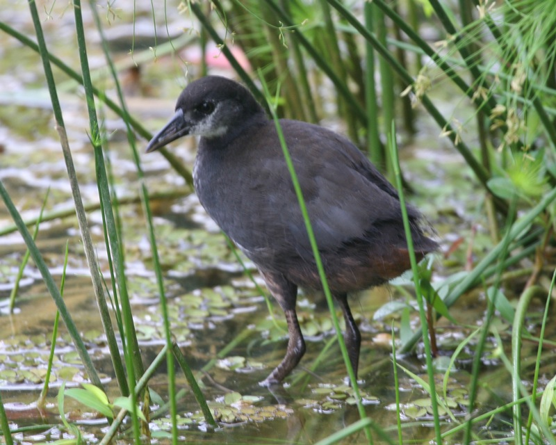 White-breasted Waterhen Amaurornis phoenicurus phoenicurus Singapore Botanic Gardens 17th. August 2005 Certainly grows fast compared to 30th. July 2005 - 18 days